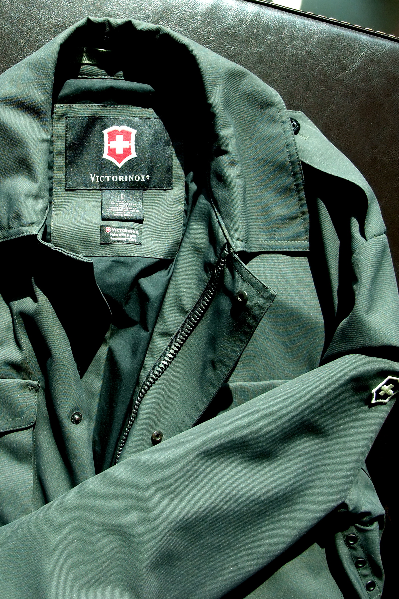 Victorinox jacket